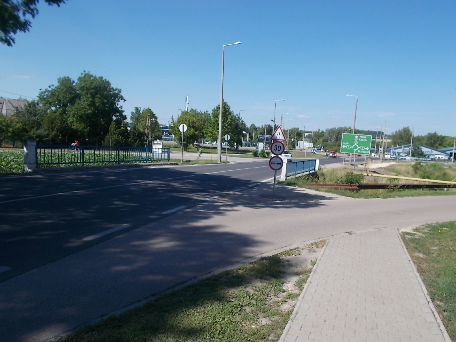 Roundabout, Route 1 and bridge. - Kossuth Street, Bicske, Fejér County, Hungary.